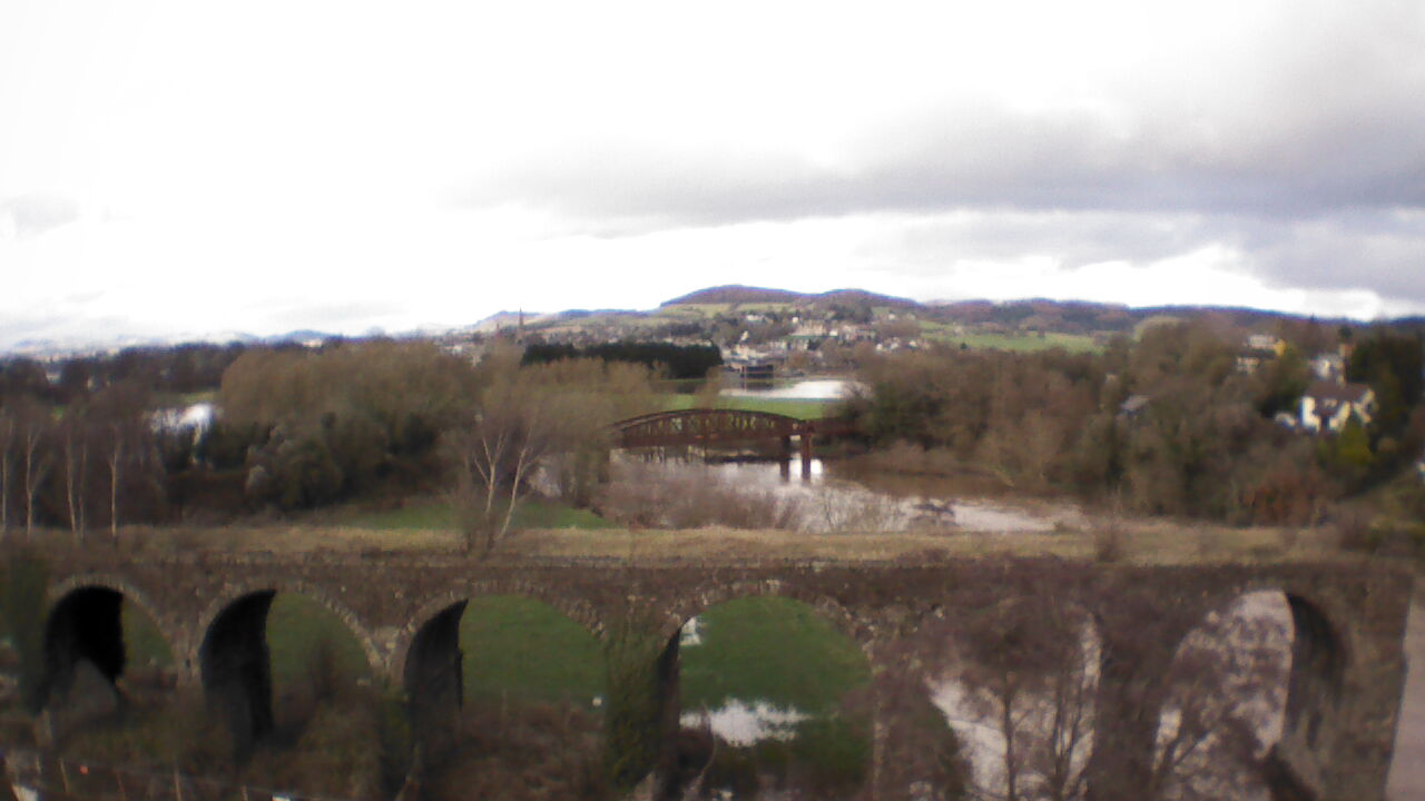 Monmouth viaduct and iron bridge taken from a quadcopter